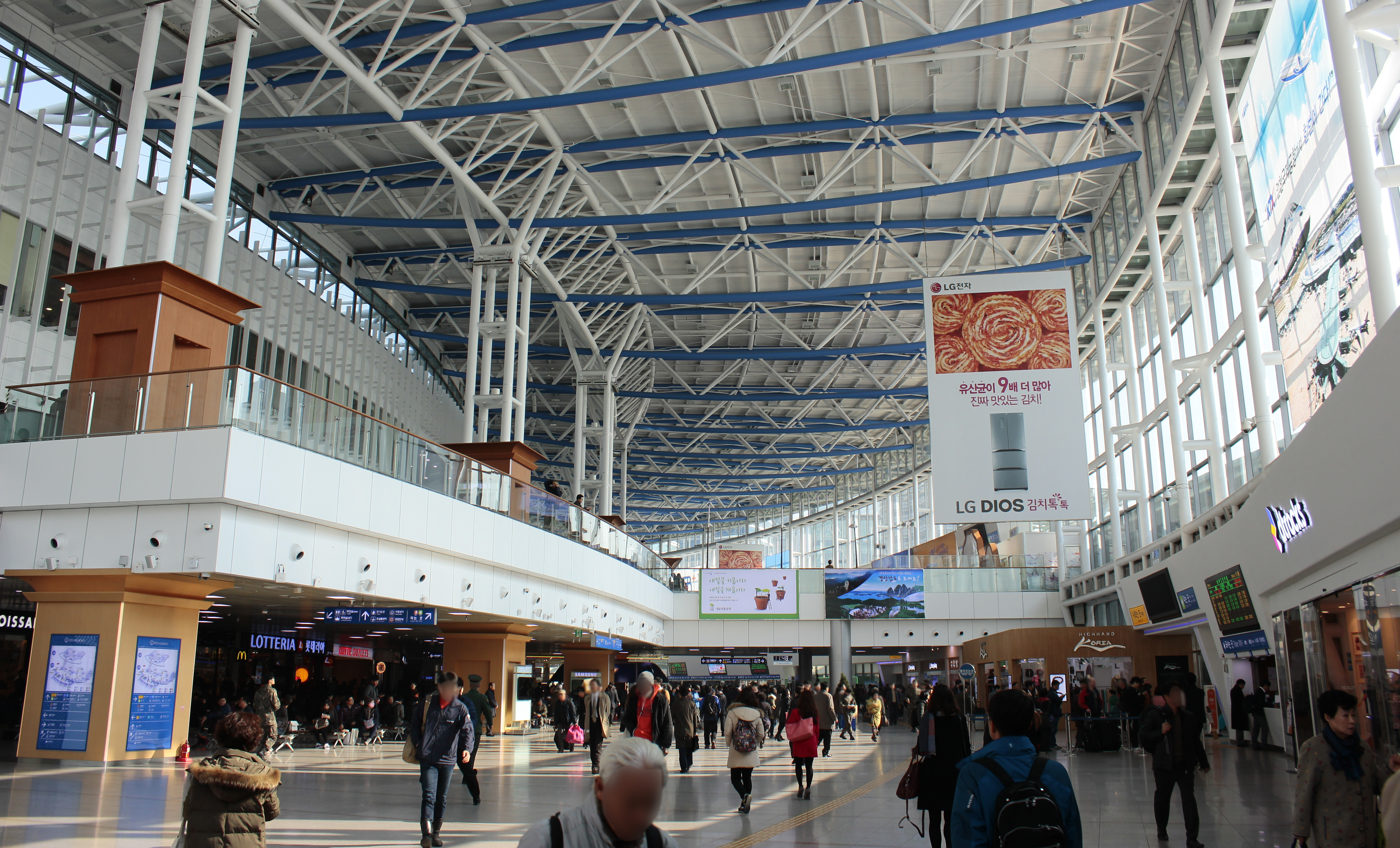 first floor